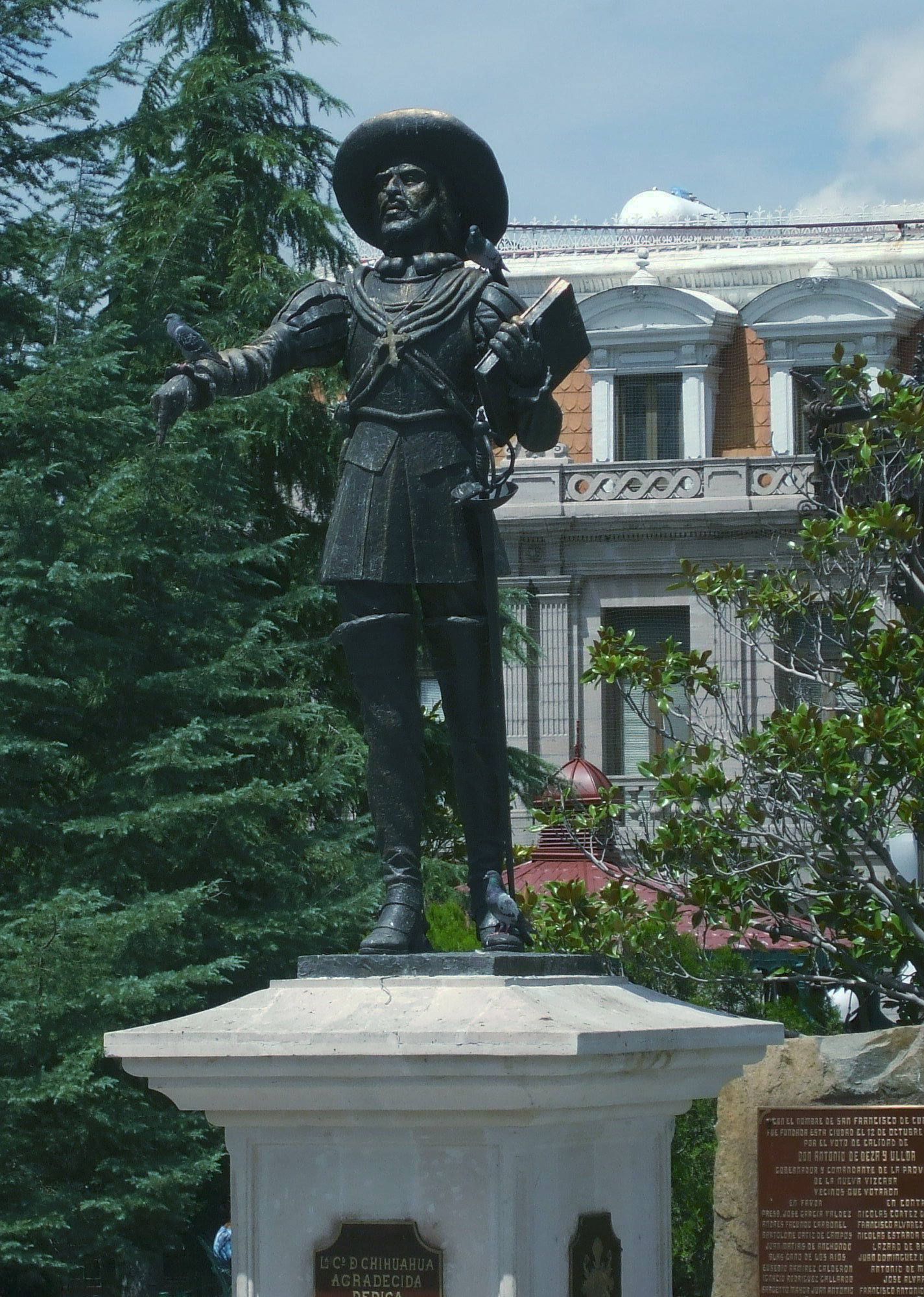 Statue in the Plaza de Armas, Chihuahua, Mexico of Antonio Deza y Ulloa, Captain-General of Nueva Vizcaya and founder of Chihuahua